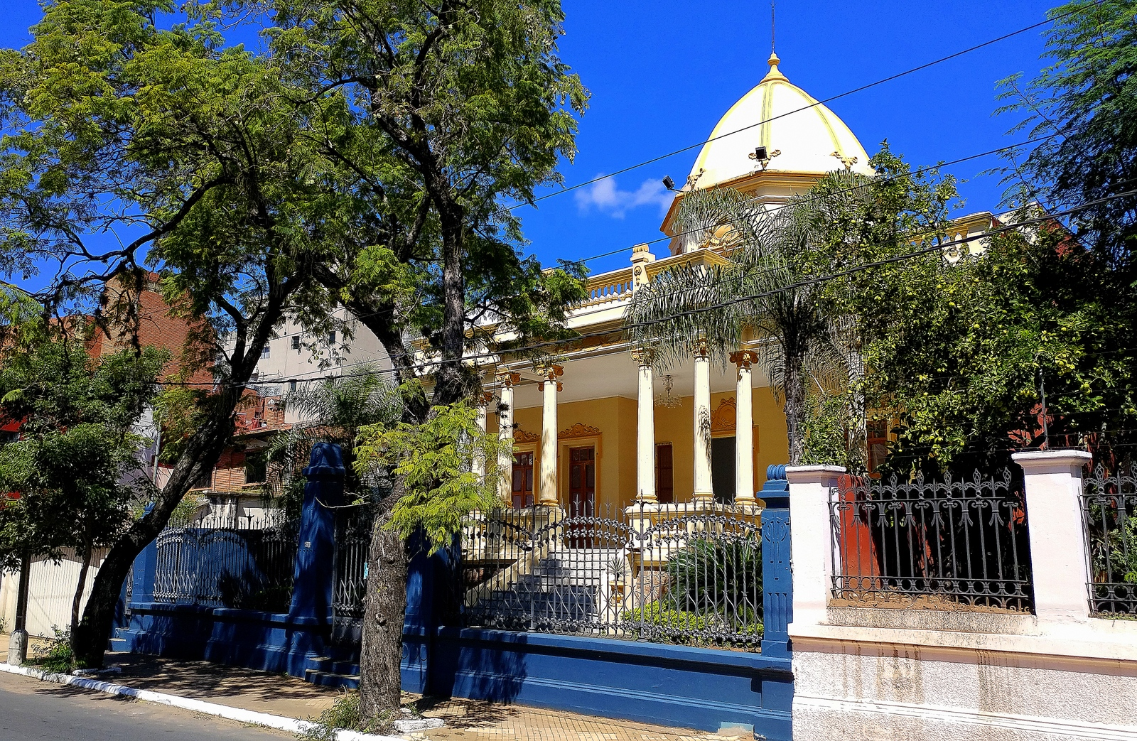 Museo Nacional de Bellas Artes, Asunción, Paraguay